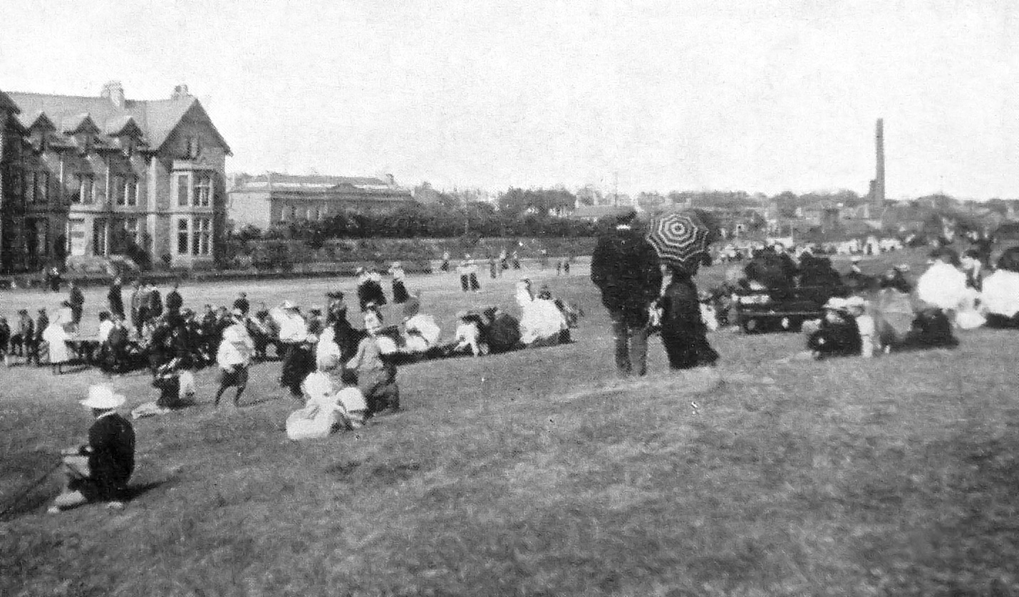 Carnoustie Links, circa 1910. (Modified version of original newspaper photo with halftone dot pattern removed etc.)